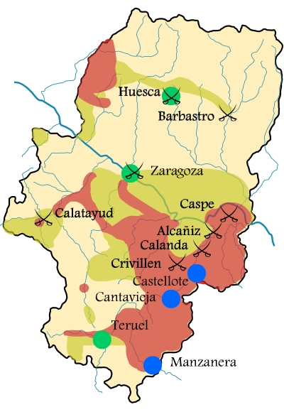 Battles and carlist areas during the first carlist war (1833-1840) in the aragonese front. Green: Liberals main bases Blue: Carlist fortifications Red: Zones under Carlist military control Yellow: Areas where carlist troops found popular support or had presence